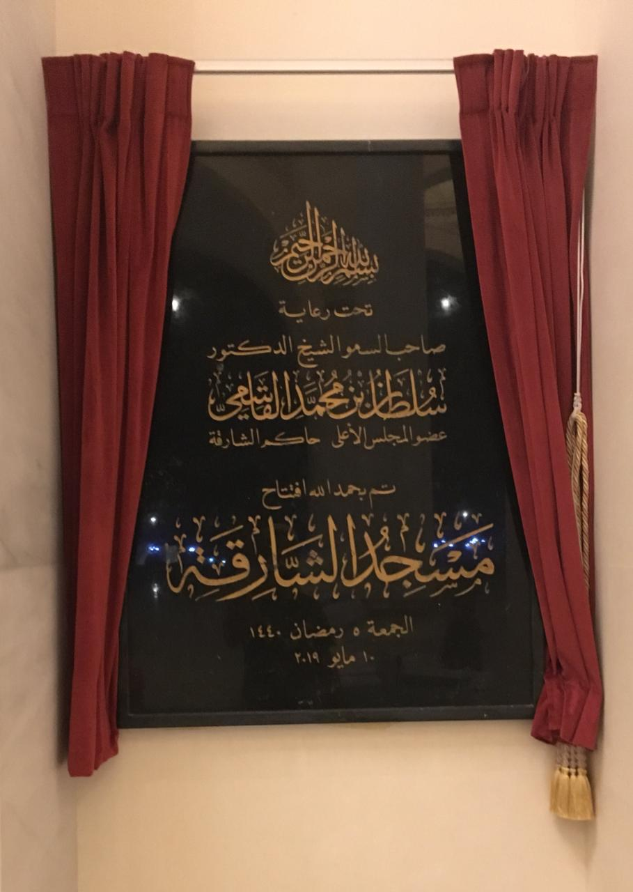 Plaque (in Arabic) showing the name of the mosque along with date of inauguration.